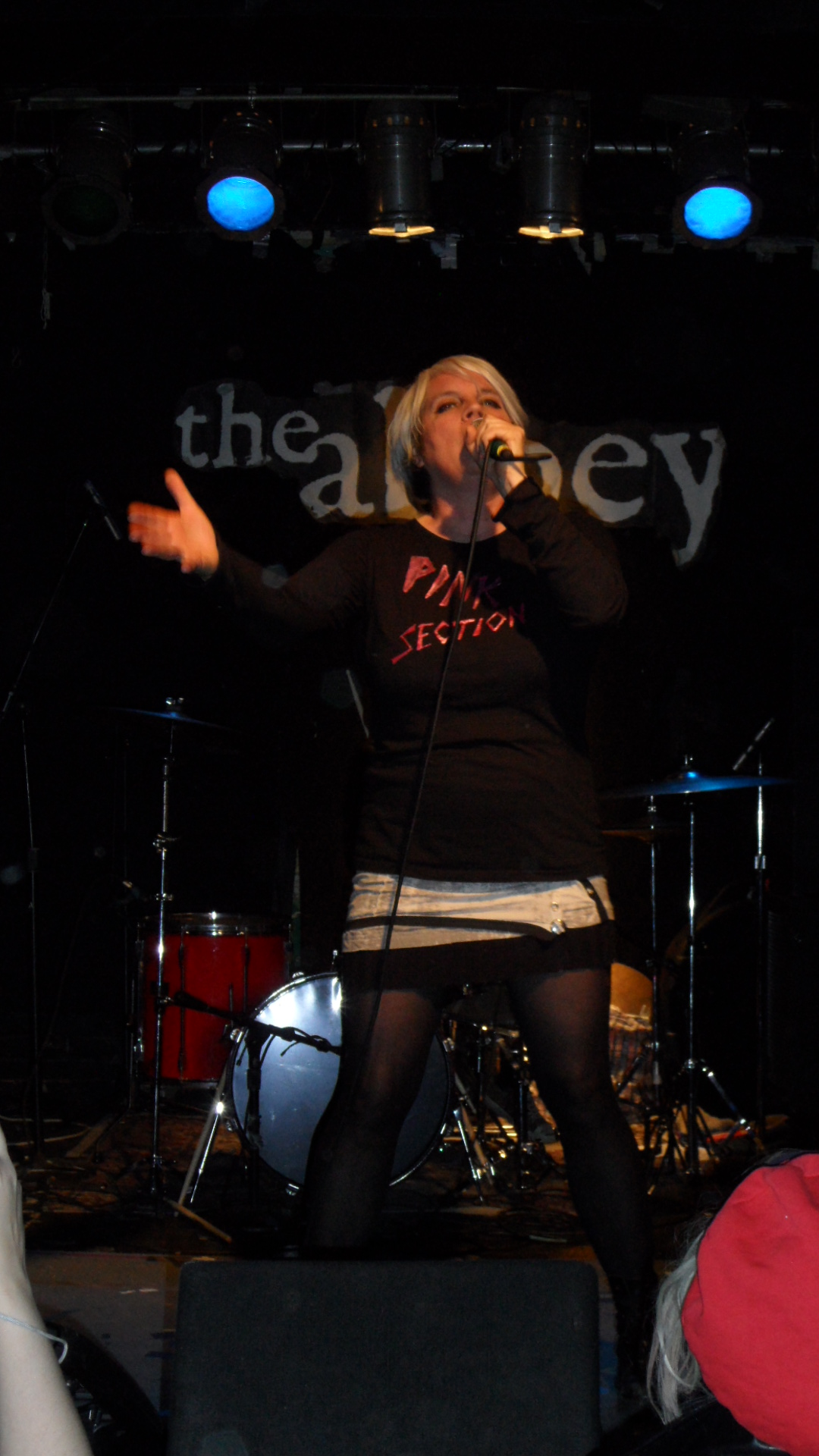 Penelope Houston, performing with the Avengers (band) at the Abbey Pub in Chicago on 10/29/2012